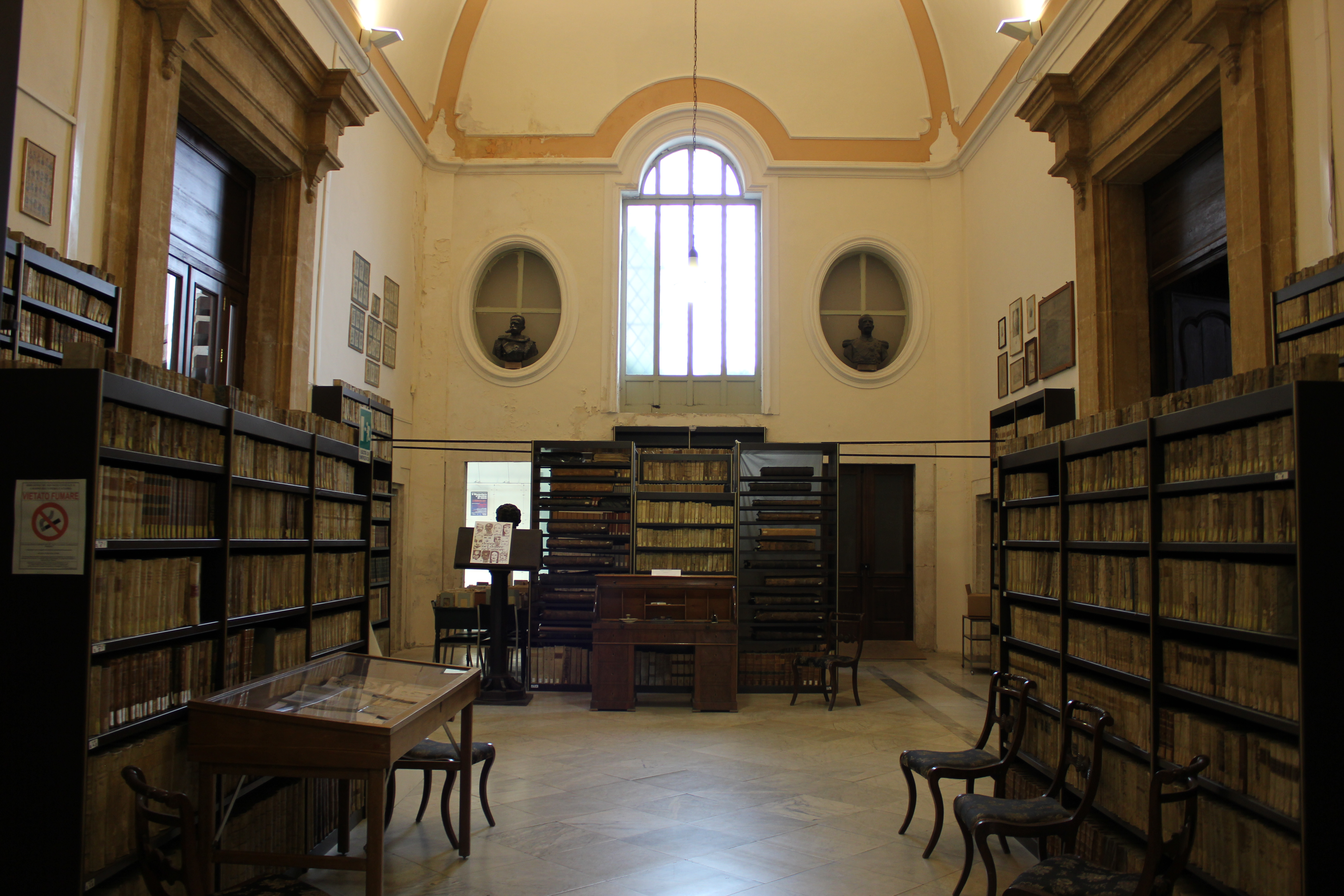 Federico De Roberto Scrittoio.Catania, Biblioteche Riunite "Civica e A. Ursino Recupero, Sala Guttadauro